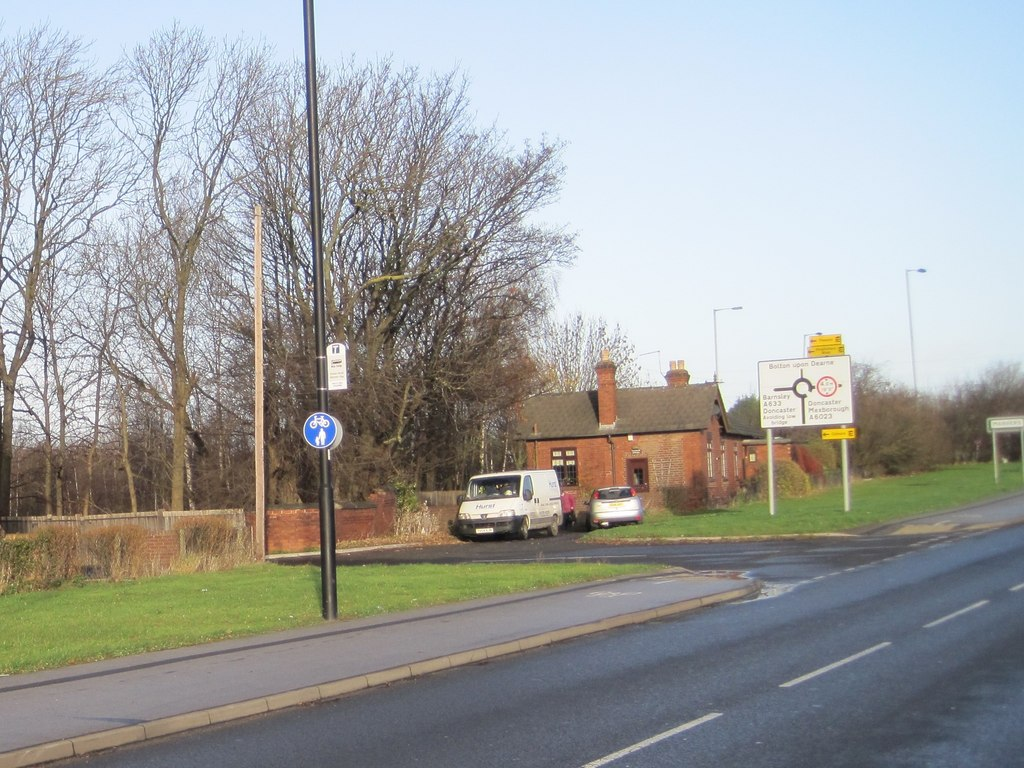 Wath H&B railway station (site), YorkshireOpened in 1902 by the Hull & Barnsley Railway, this was the terminus of a short branch from Wrangbrook Junction. It closed to passengers in 1929. View north along Station Road. At one time, Wath-upon-Dearne had three railway stations, all situated in Station Road. This was the first one to close, but the only building of the three to survive.